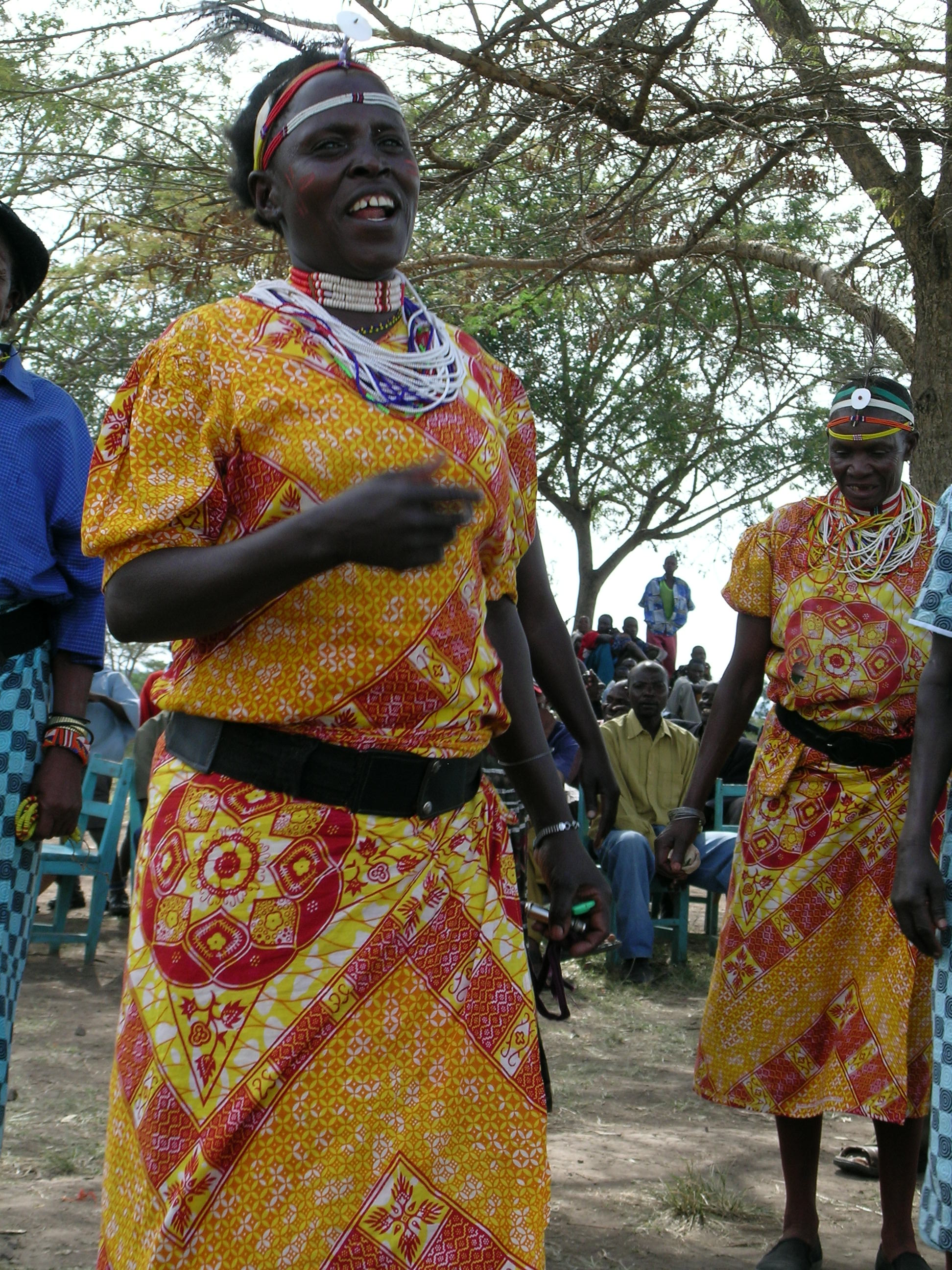 Two Kuria men dressed in yellow and red robes and beads dancing and singing. Original caption: At the school which is between areas where two tribes live, Kuria and Luo, the community comes together when honored guests arrive from far away. File size :1.0MB(1098497Bytes) Date taken :2005/09/30 16:27:17 Image size :2592 x 1944 Resolution :300 x 300 dpi Number of bits :8bit/channel Protection attribute :Off Hide Attribute :Off Camera ID :N/A Camera :E5400 Quality mode :N/A Metering mode :Matrix Exposure mode :Programmed auto Speed light :Yes Focal length :14.5 mm Shutter speed :1/138.8second Aperture :F6.2 Exposure compensation:0 EV White Balance :N/A Lens :N/A Flash sync mode :N/A Exposure difference :N/A Flexible program :N/A Sensitivity :N/A Sharpening :N/A Image Type :Color Color Mode :N/A Hue adjustment :N/A Saturation Control :N/A Tone compensation :N/A Latitude(GPS) :N/A Longitude(GPS) :N/A Altitude(GPS) :N/A